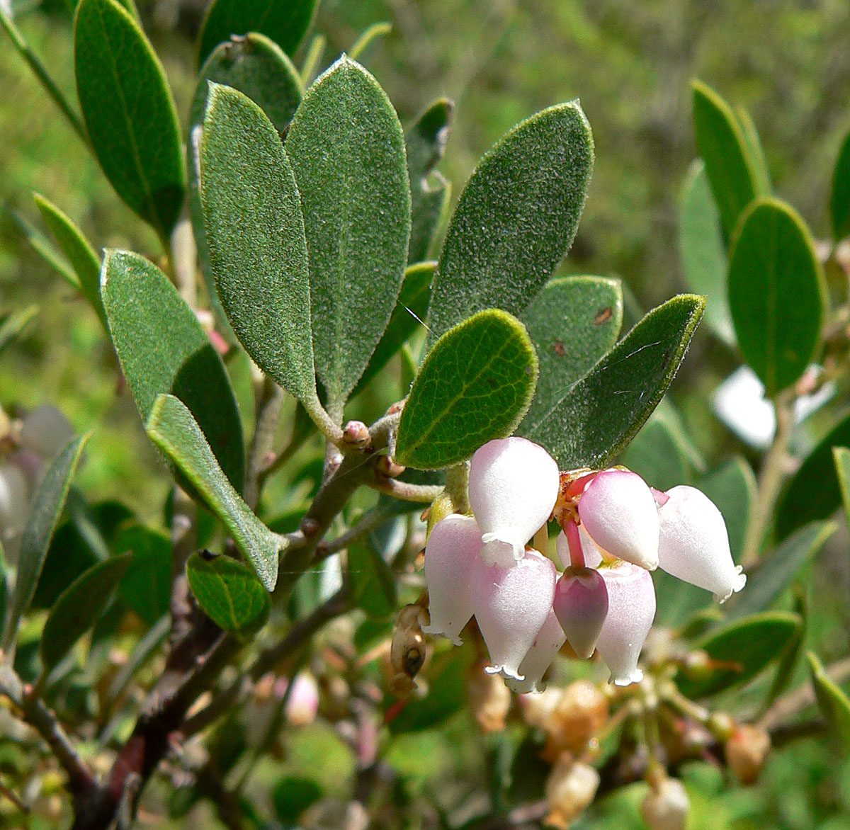 Photo of Arctostaphylos franciscana at the Regional Parks Botanic Garden, Berkeley, California